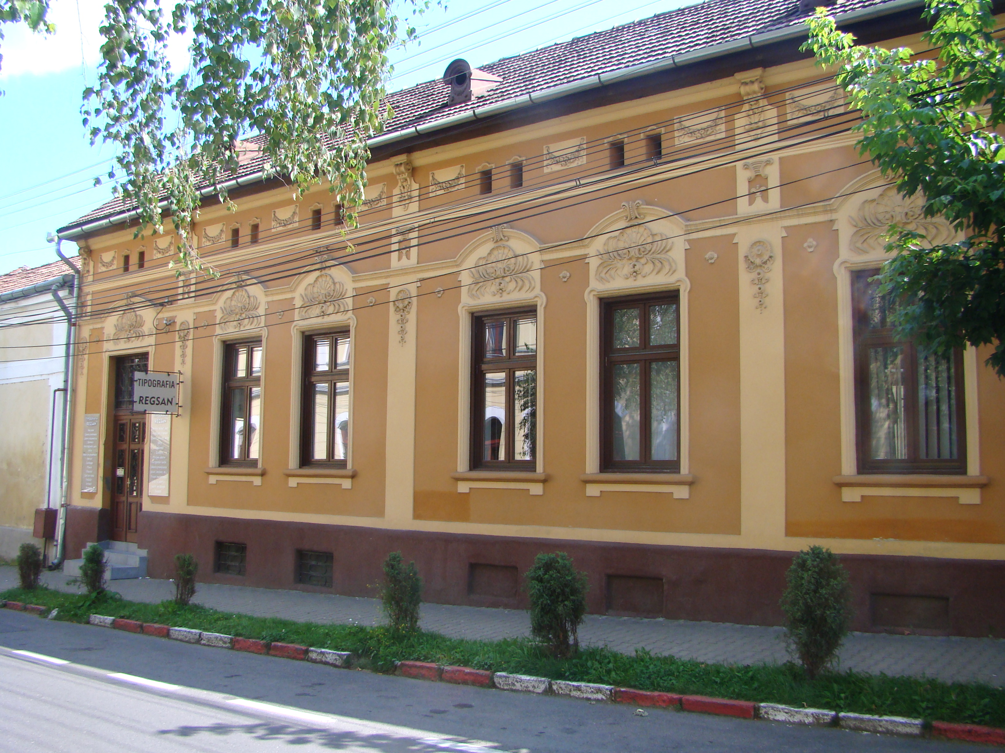 House, historic monument, in Reghin, Spitalului street, nr 1